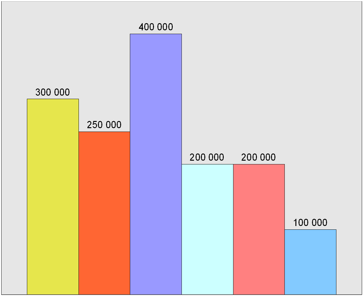 Bar chart representing sales figures of Björk’s albums in France (Yellow: Debut, orange: Post, purple: Homogenic, light blue: Selmasongs, pink: Vespertine, blue: Medúlla)